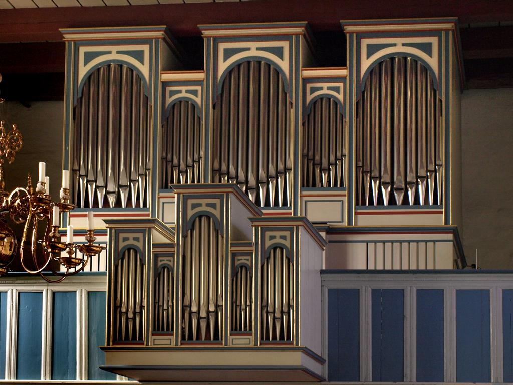 Morsum (Sylt), Slesvic-Holstein (Germany): church, organ, photo 2008